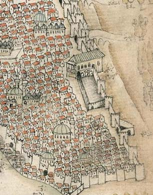 Palace of the Porphyrogenitus Detail from Map of Constantinople by Piri Reis